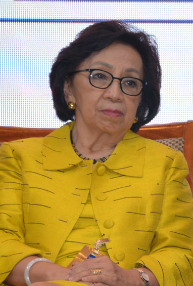 The Asian Development Bank (ADB), in partnership with the Philippine Institute for Development Studies (PIDS) and the Asian Institute of Management (AIM), launched its new book titled "Banking on the Future of Asia and The Pacific" on June 20, 2017 at the ADB Headquarters in Manila. Authored by Peter McCawley, the book talks about ADB's history from its beginnings in Manila in 1966 to how it has evolved in the present. The book also includes its significant role in the transformation of Asia, from being the poorest region in the world to becoming one of the biggest contributors to the world's economic growth. The launch was attended by AIM board member and former Secretary of Foreign Affairs Delia Albert, AIM President Jikyeong Kang, ADB President Takehiko Nakao, PIDS Board of Trustee and former University of the Philippines President Alfredo Pascual, and Socioeconomic Planning Secretary and National Economic Development Authority Director-General Ernesto Pernia.